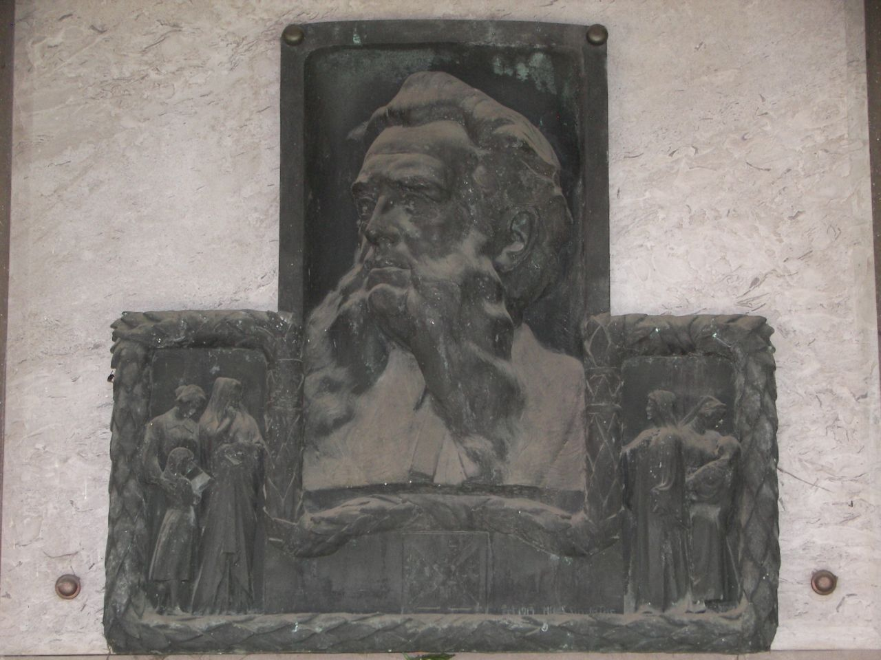 Bielsko-Biała.Cemetery at Listopadowa street.47